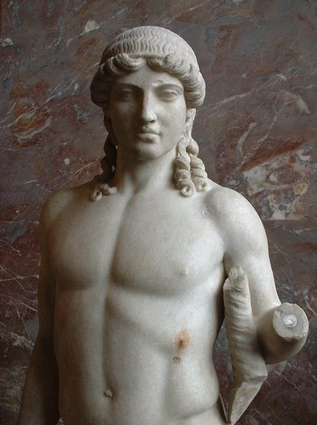 Apollo of the “Mantua Apollo” type, detail. Marble, Roman copy from the 1st–2nd century BC after a 5th century BC Greek original attributed to Polykleitos.